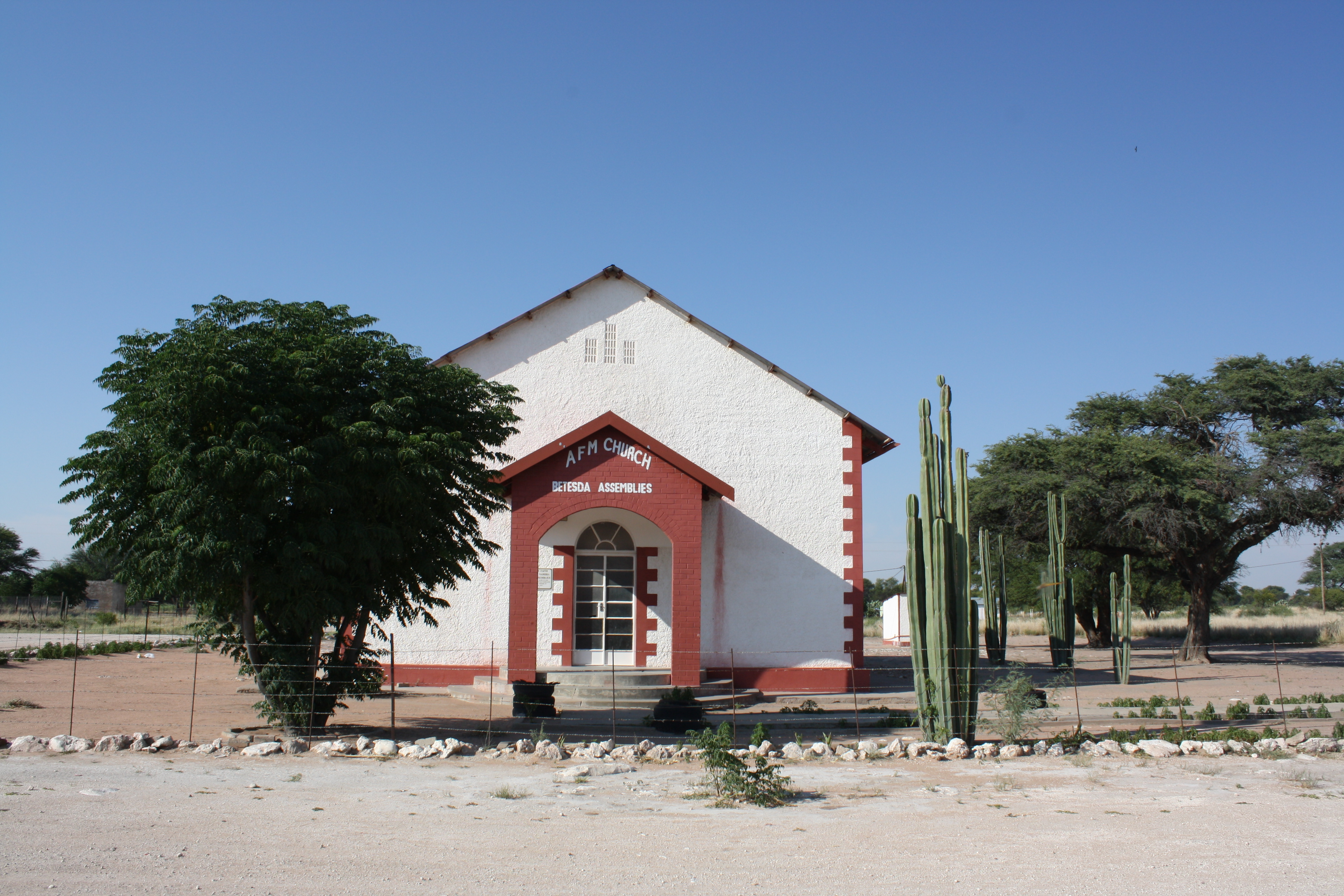 Bethesda church, Apostolic Faith Mission of Namibia, Witvlei, Namibia